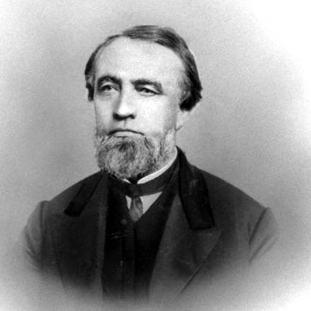 Photograph of New Mexico Governor Marsh Giddings (1871-1875), Negative Number 009888